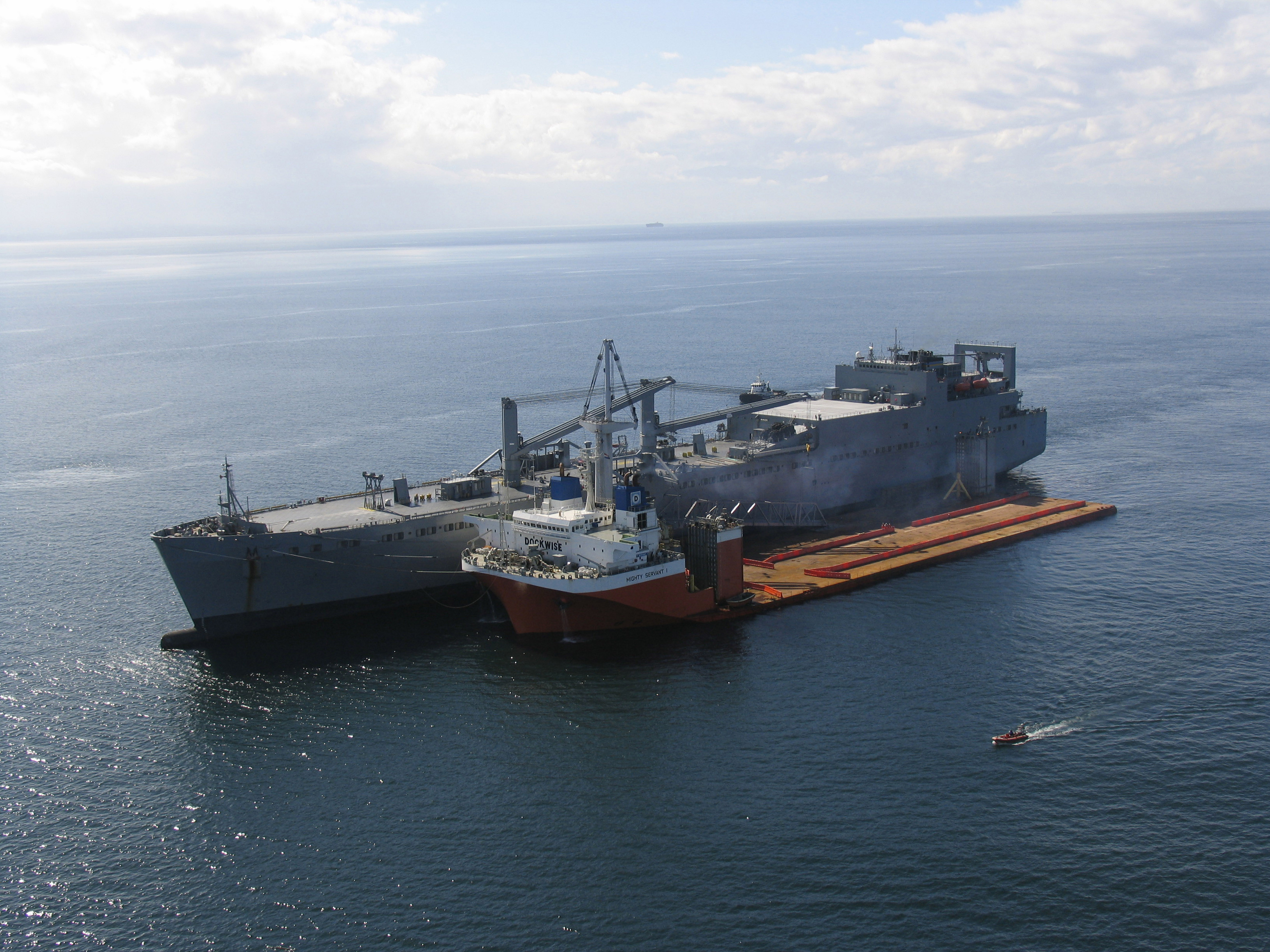 Military Sealift Command large, medium-speed, roll-on/roll-off ship USNS Watkins (back) and heavy lift ship MV Mighty Servant I moor side-by-side off San Diego during a Mobile Landing Platform demonstration Oct 12. Cargo from Watkins was transferred to Mighty Servant I and then loaded onto hovercraft for delivery to shore during a test of a new military logistics concept known as seabasing. Sea bases are envisioned as virtual floating military bases composed of more than a dozen amphibious assault ships, auxiliary vessels and connector vessels. These bases will enable the military to deploy U.S. forces and their cargo from the sea to contingency sites anywhere in the world. Photo courtesy of Navy Program Executive Office